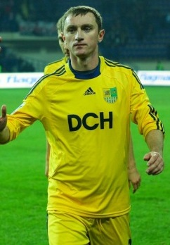 Andriy Vorobey